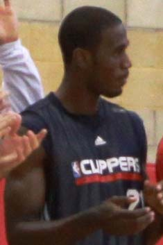 Kareem Rush of the Los Angeles Clippers. This file has been extracted from another file: LA Clippers players introduced Camp Pendleton.JPG